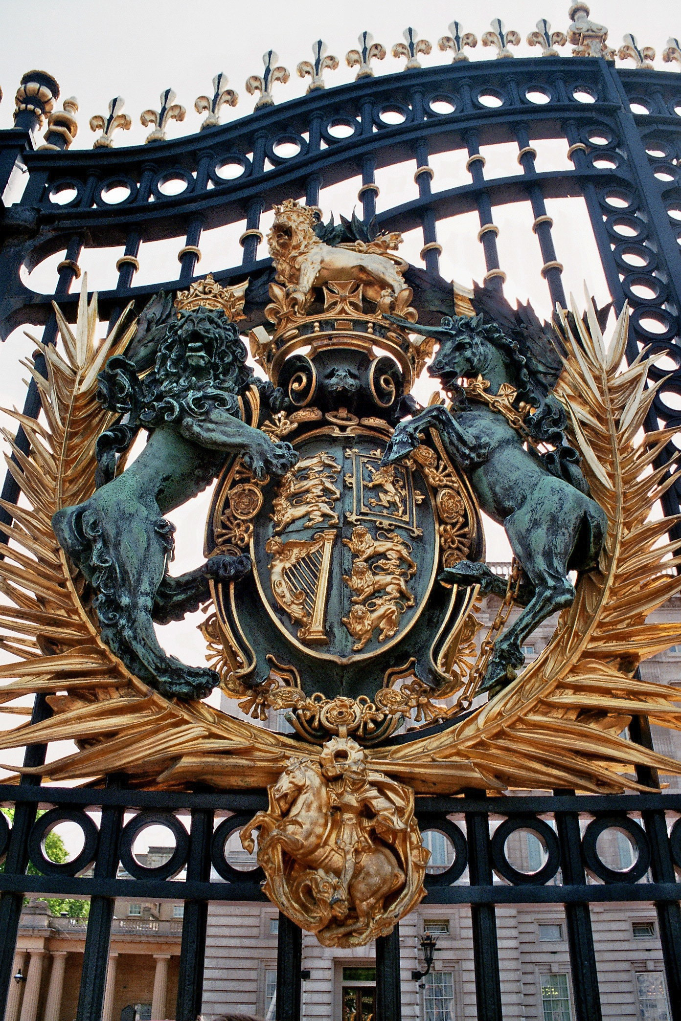 Buckingham Palace, London, United Kingdom, royal coat of arms at the gate of the palace